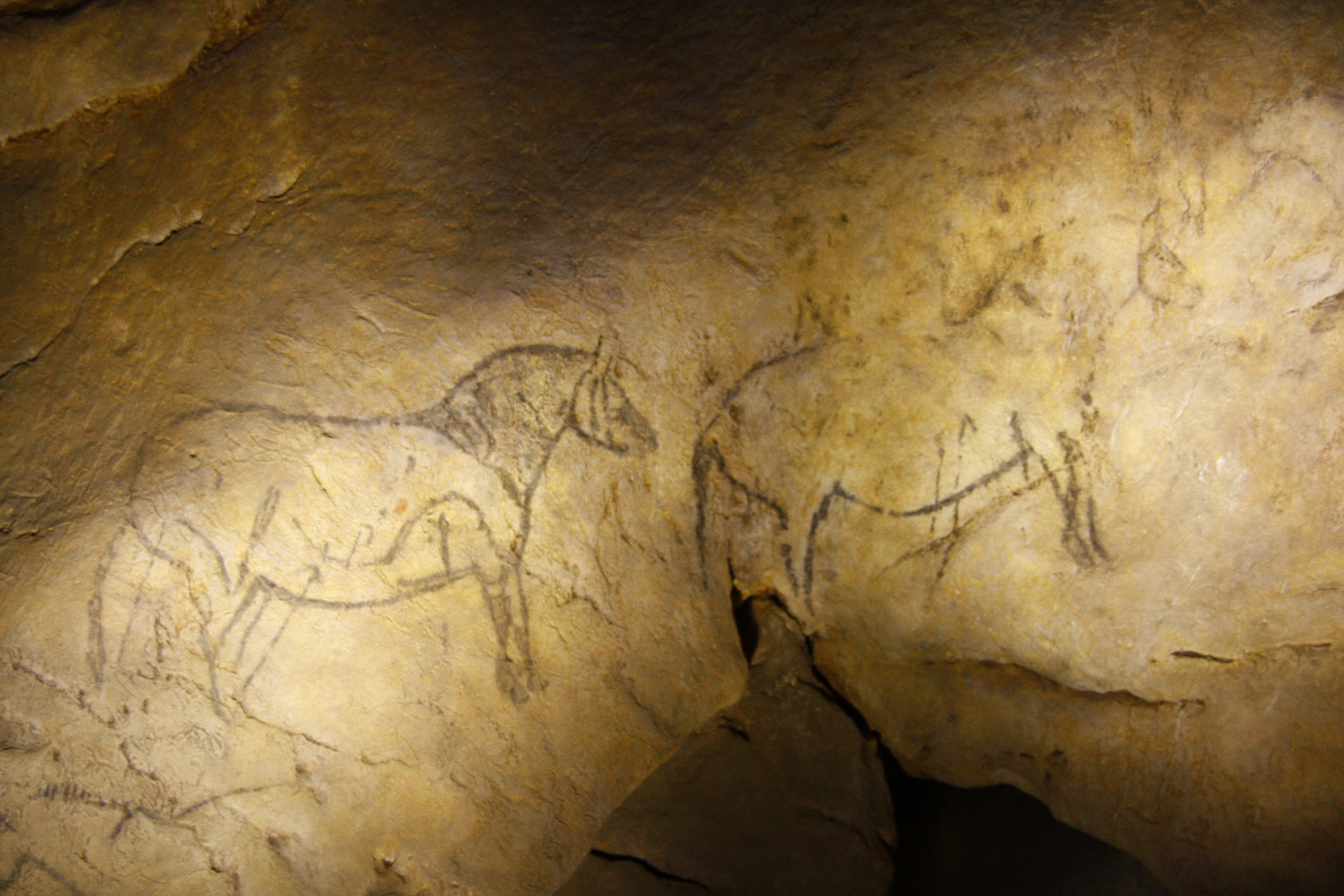 Cave art in Basque country: representation of horses (Pottoka?) on wall in the Ekain cave, municipality of Deba in Guipuscoa.